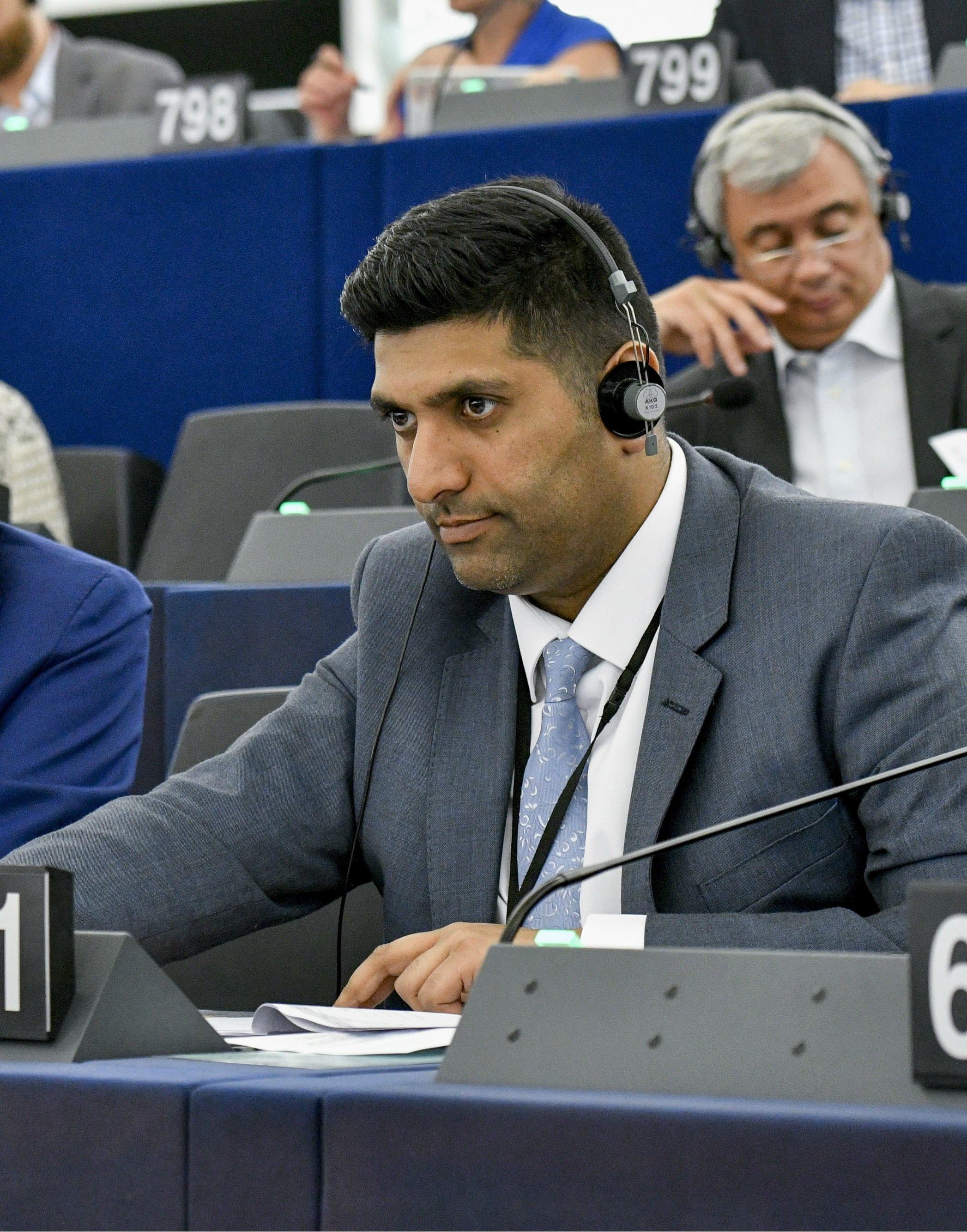 Khan during a voting session in the European Parliament, Strasbourg.